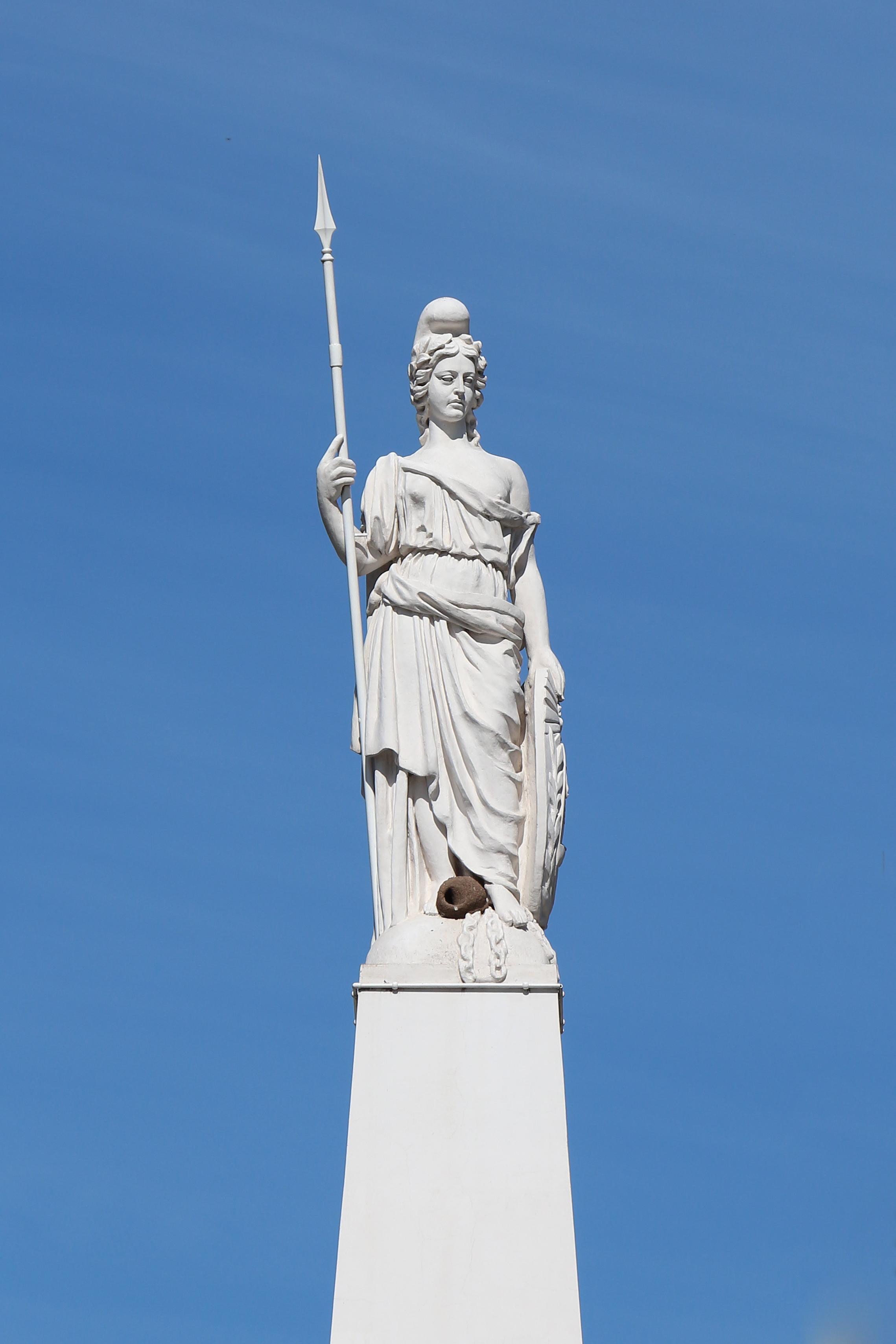 Statue at the top of the Pirámide de Mayo, Plaza de Mayo, Buenos Aires